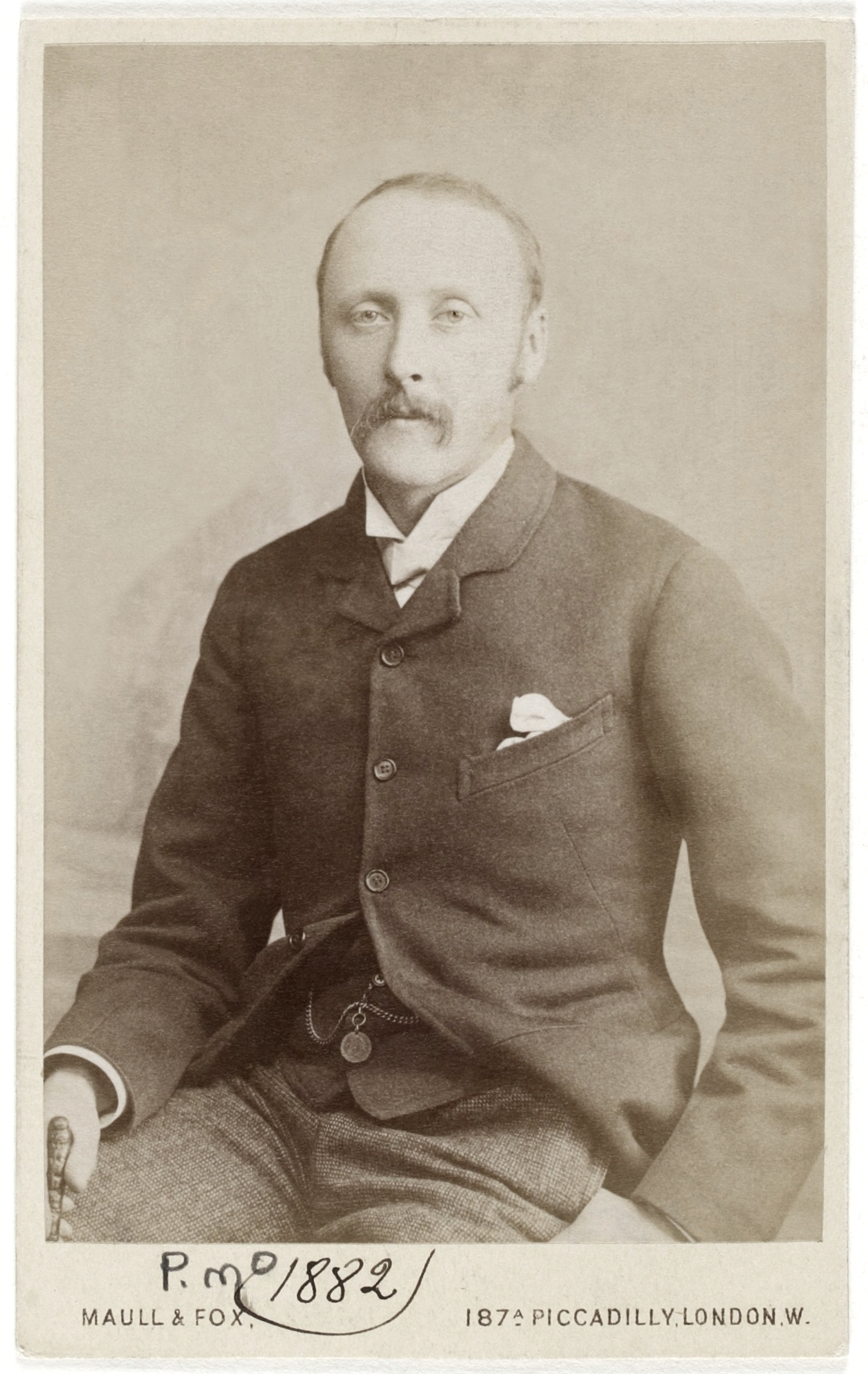 Sir Isaac Bayley Balfour (1853 - 1922), scottish botanist.